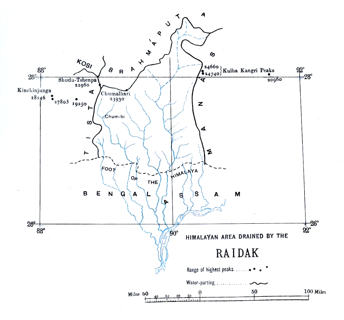 Map of the catchment zones for the Raidak river